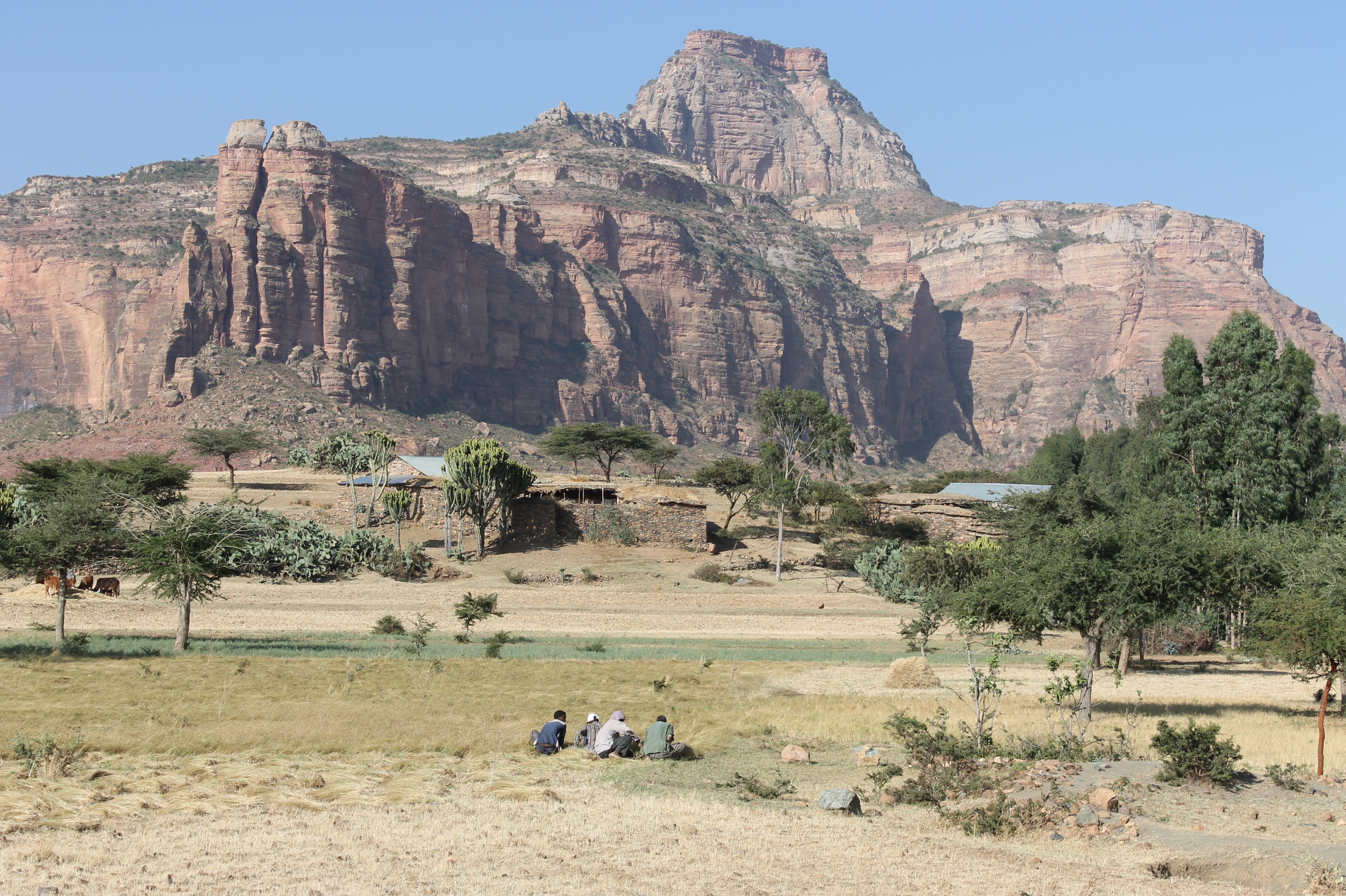 This is an image of "African people at work" from Ethiopia